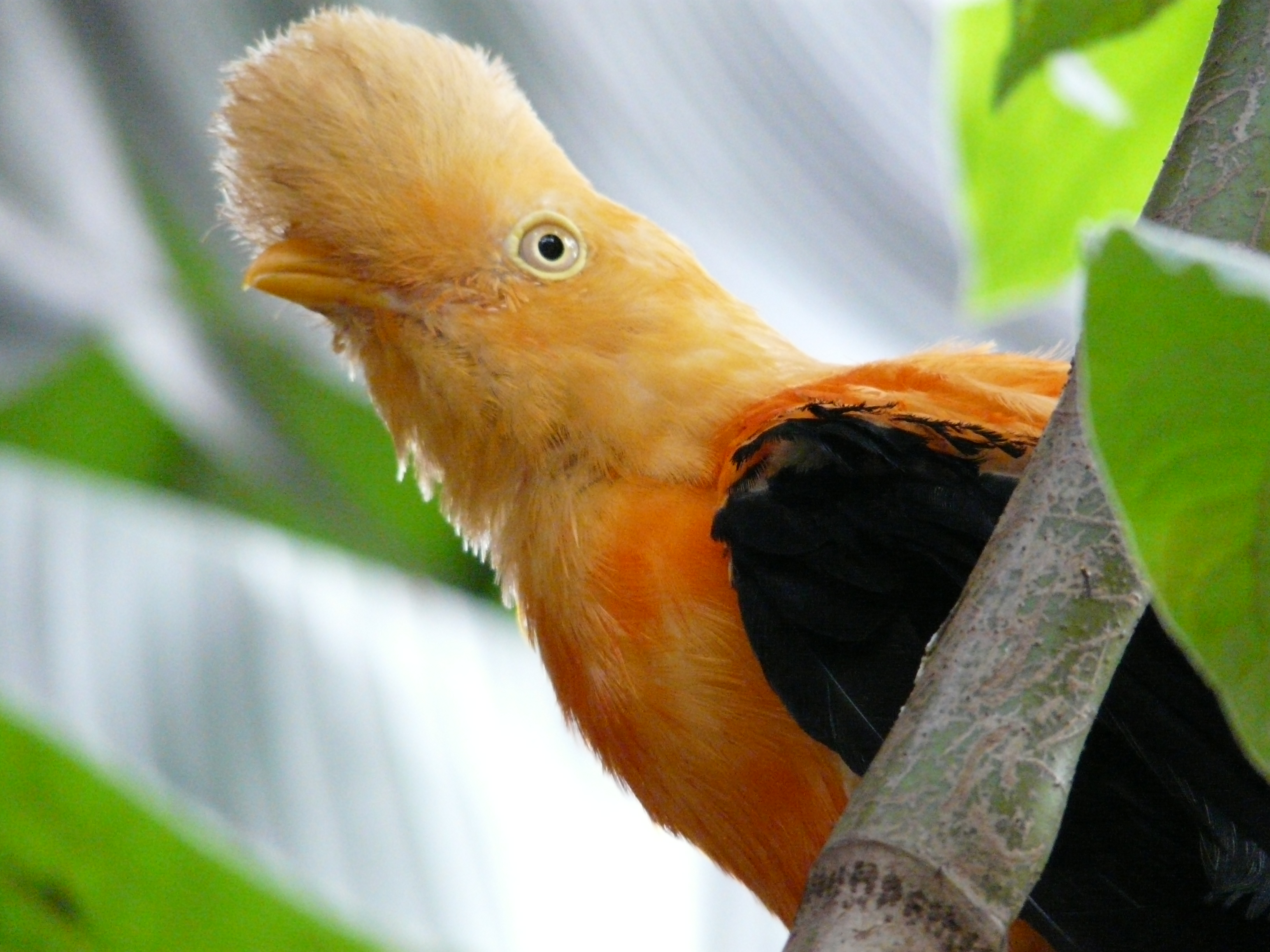 Photograph of the Rupicola peruviana Male. Photo taken at the Zoo Sta Fe Medellin Colombia